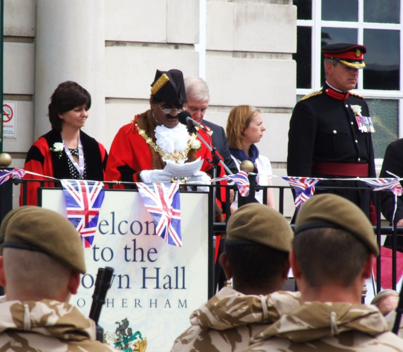 The Mayor of Rotherham, Councillor Shaukat Ali, Bestows the Freedom of the Borough on The Yorkshire Regiment